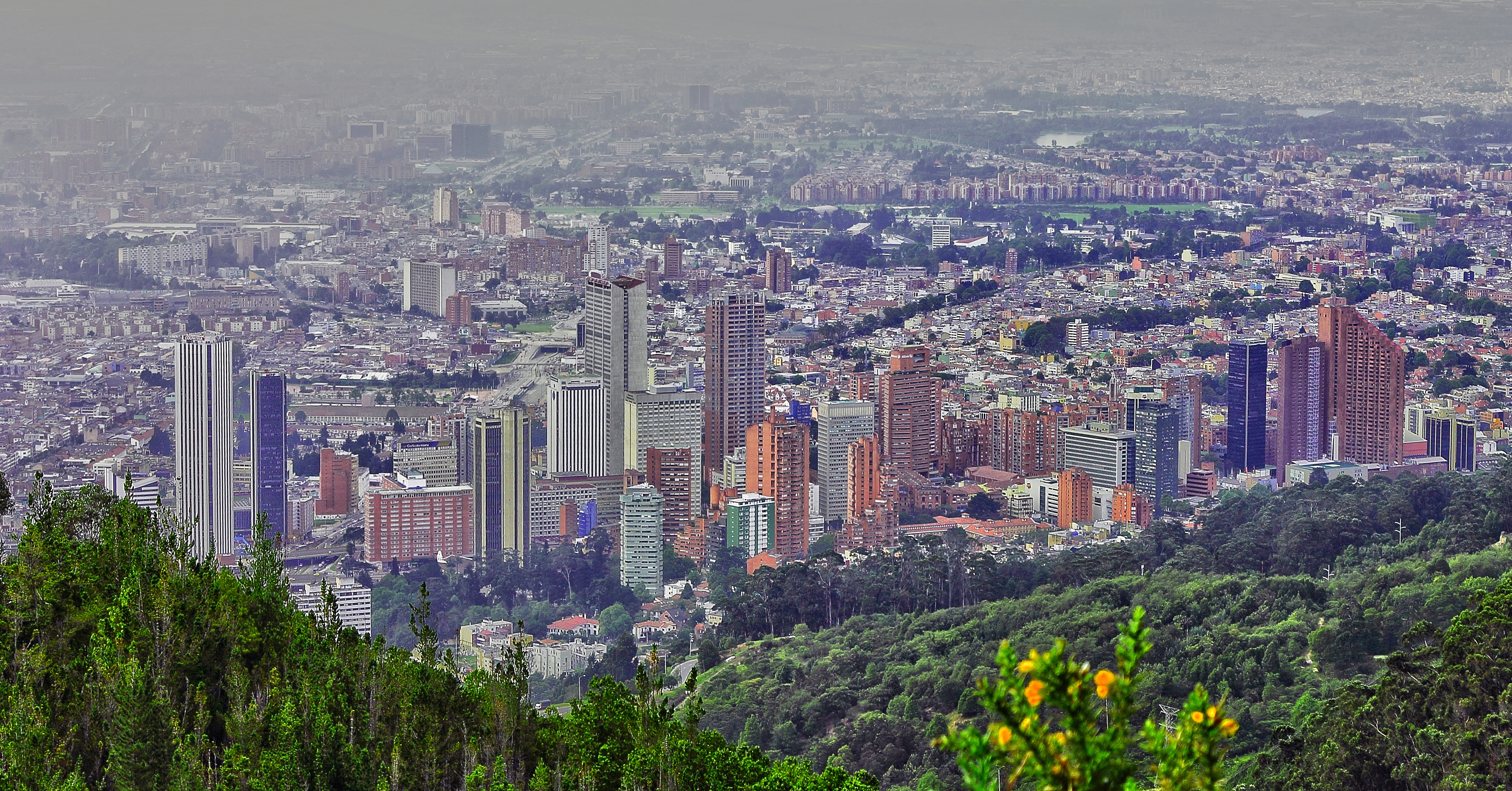 Panoramic view of Bogotá D.C.